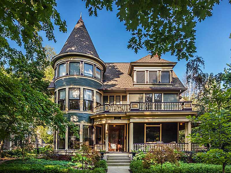 Queen Anne Ambersons Indy 1887 All available pix by clicking ALBUM icon below.. PHOTO CREDIT - MLS